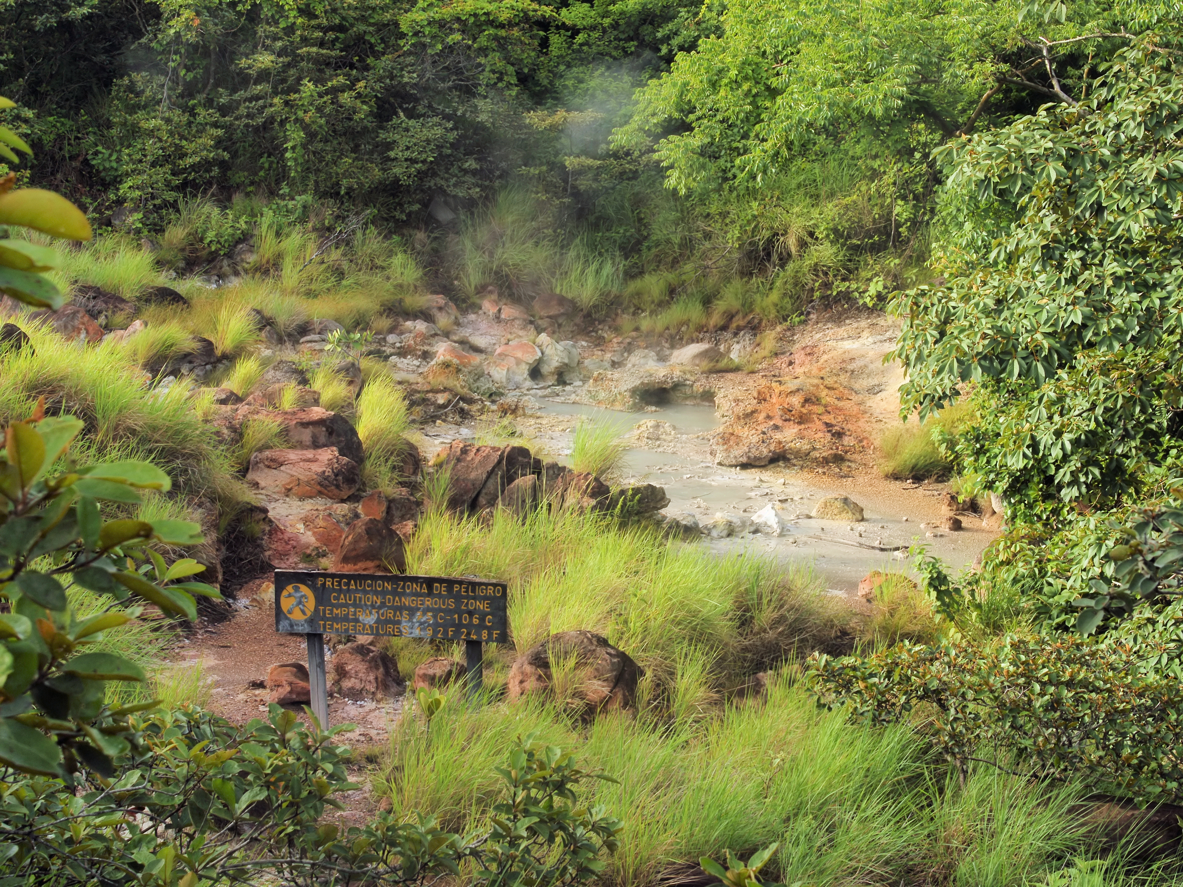 Hot spring at Rincon de la Vieja, Costa Rica